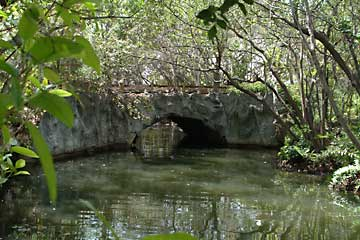 Arch Creek natural limestone bridge. Photo by Robert A. Burr, 2005